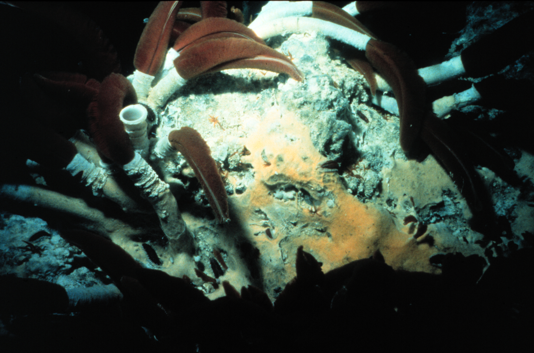 Tube worms at a Pacific hydrothermal vent are related to hydrocarbon seep worms. Riftia pachyptila